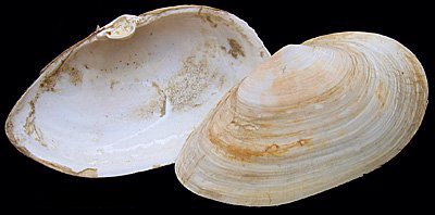 Mya arenaria; marine bivalved shell commonly occurring in the North Sea.